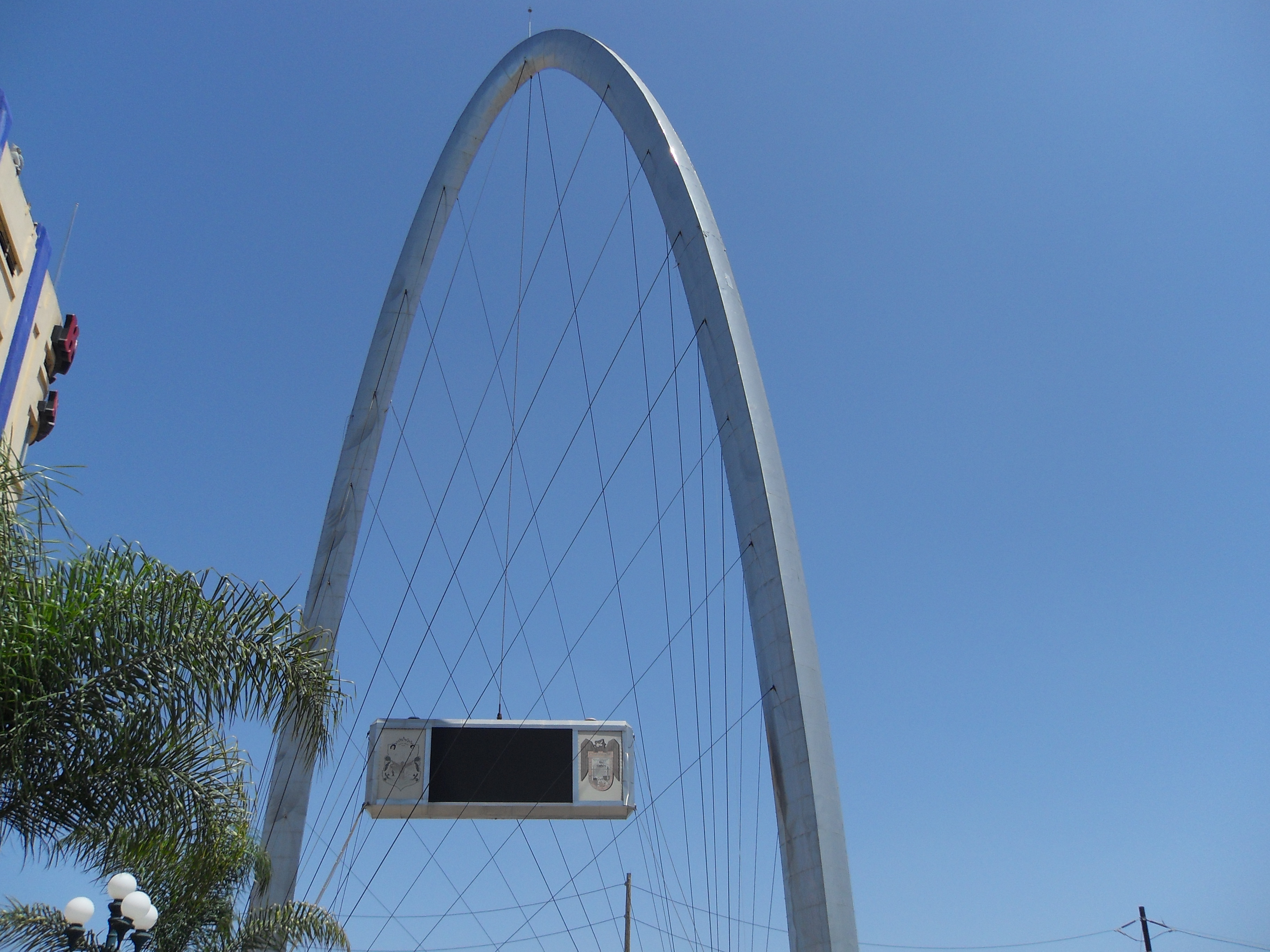 Tijuana Arch